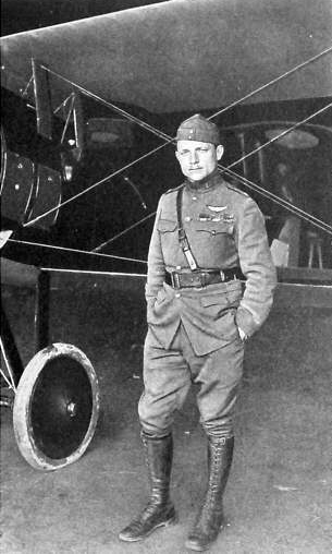 Raoul Gervais Lufbery, the third highest scoring American ace for World War I, was the first American to reach ace status. He was member of the famed Lafayette Escadrille before transferring to the U.S. Air Service following the nation's entry into the war. He had 17 confirmed victories with the French.